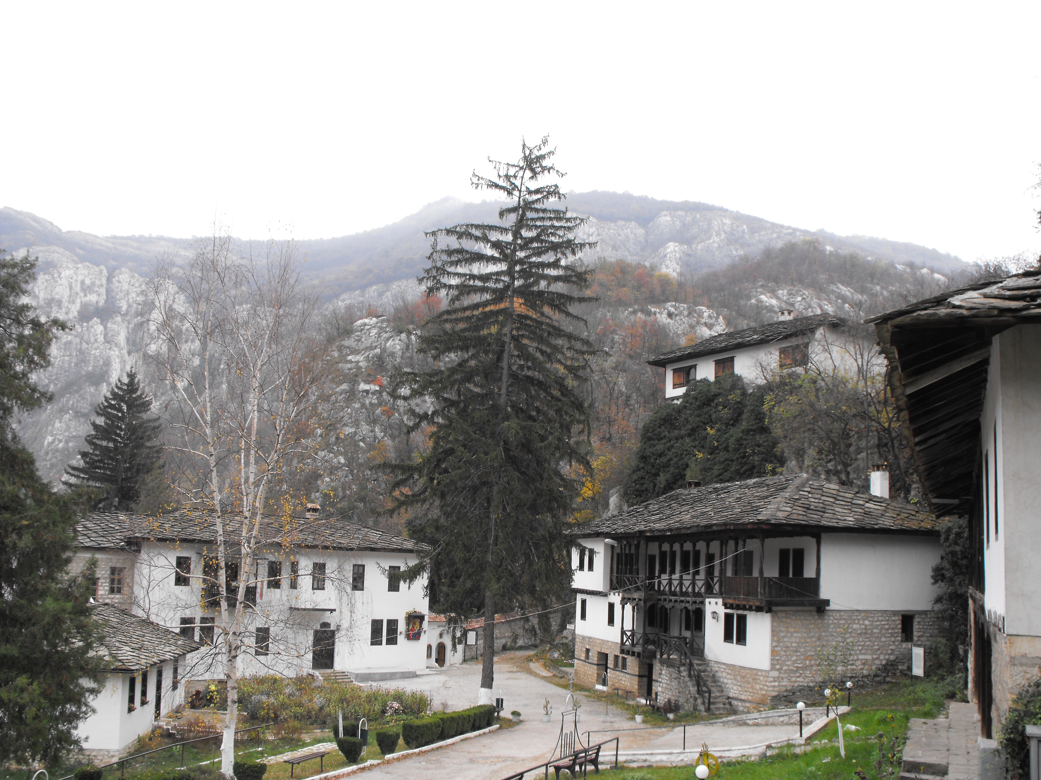 Cherepishki monastery, Bulgaria